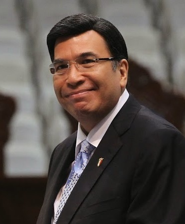 President Benigno S. Aquino III receives the first copy of the Philippine Arena Coffee Table Book presented by Iglesia ni Cristo (INC) Executive Minister Brother Eduardo Manalo during the Inauguration of Ciudad de Victoria (City of Victory) in Bocaue, Bulacan on Monday (July 21). Ciudad de Victoria is a 50-hectare tourism enterprise zone established by the INC in time for its centennial celebration on Sunday (July 27). (Photo by Ryan Lim / Malacañang Photo Bureau)